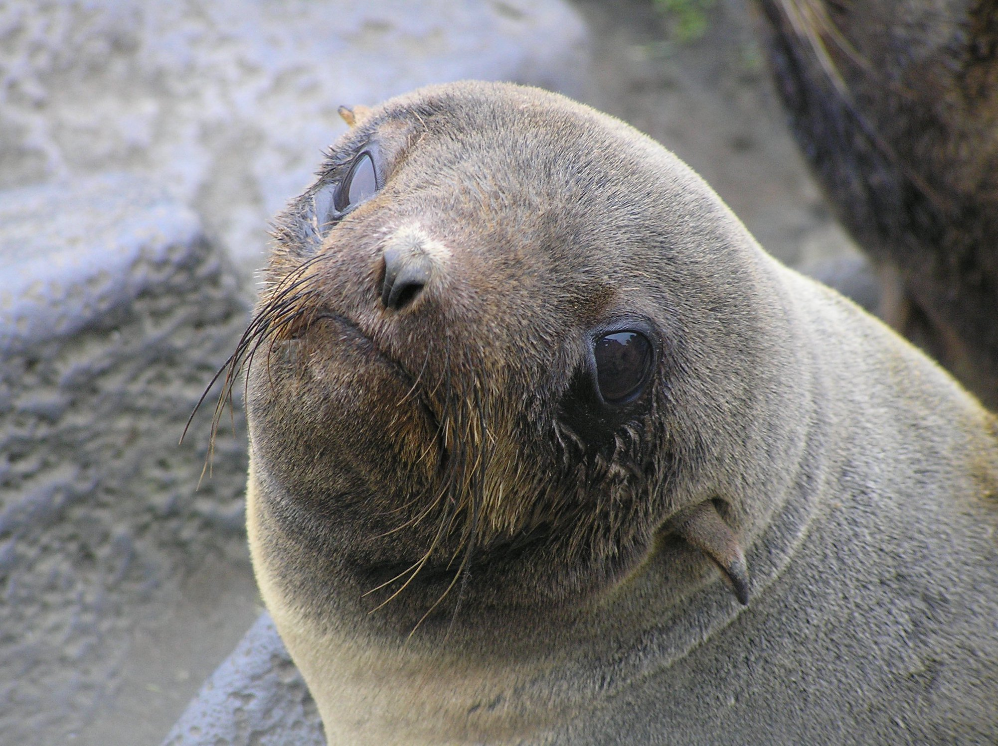 Photo: Northern Fur Seal on St. Paul Island, part of the Alaska Maritime National Wildlife Refuge, by Greg Thompson/USFWS.